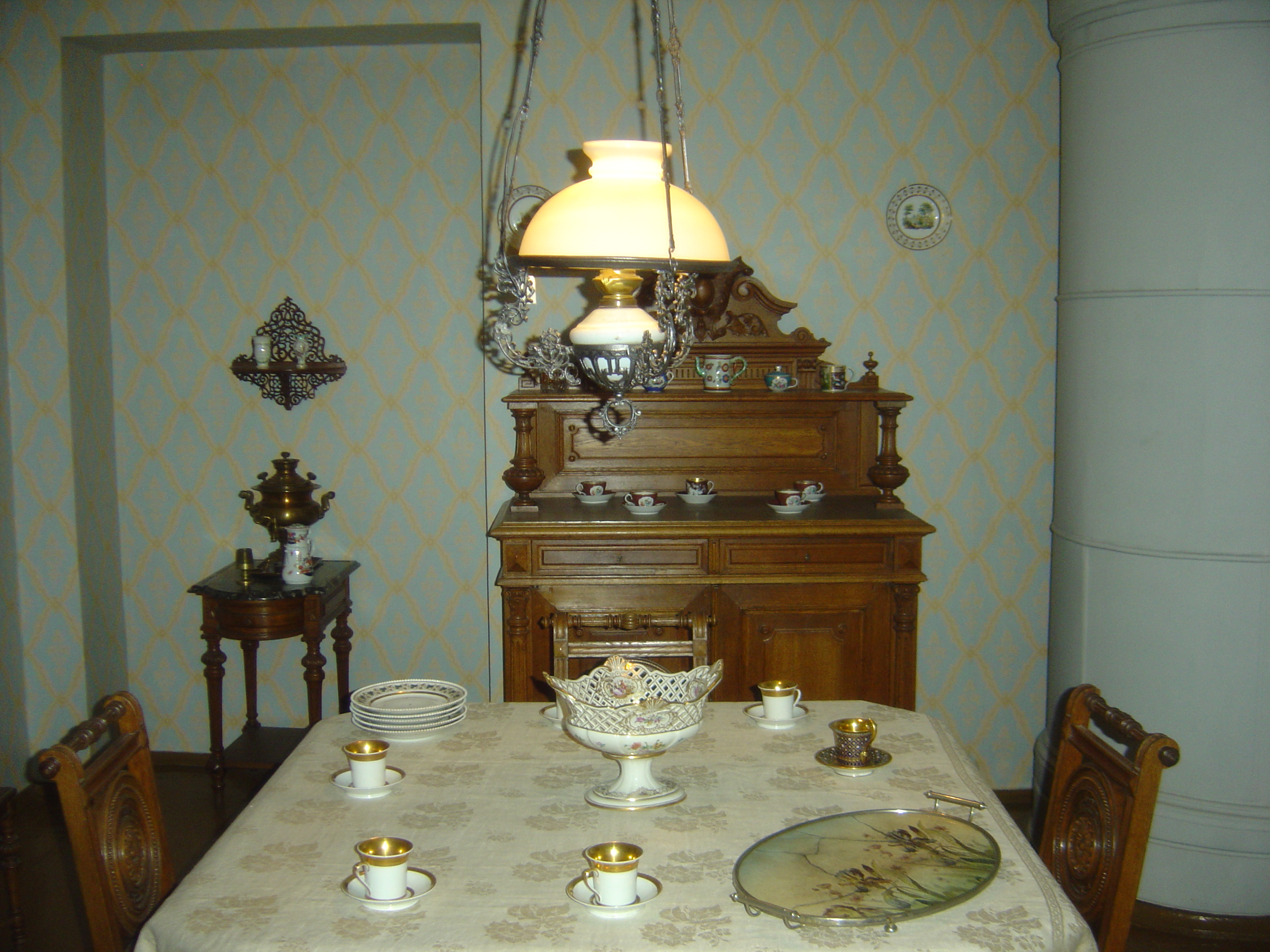 Dostoevsky Museum, the Dining room